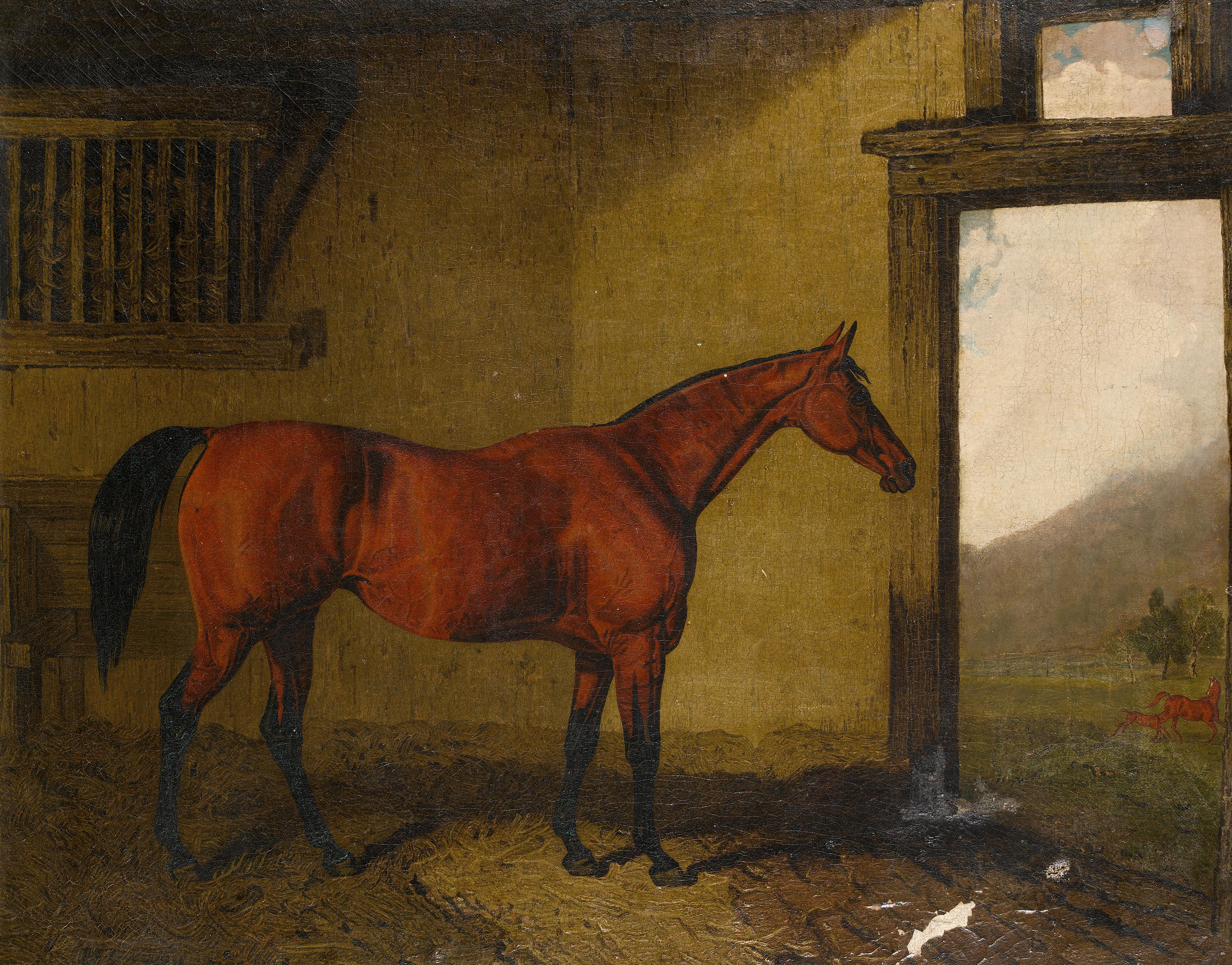 Painting of English racehorse Cobweb c. 1830.